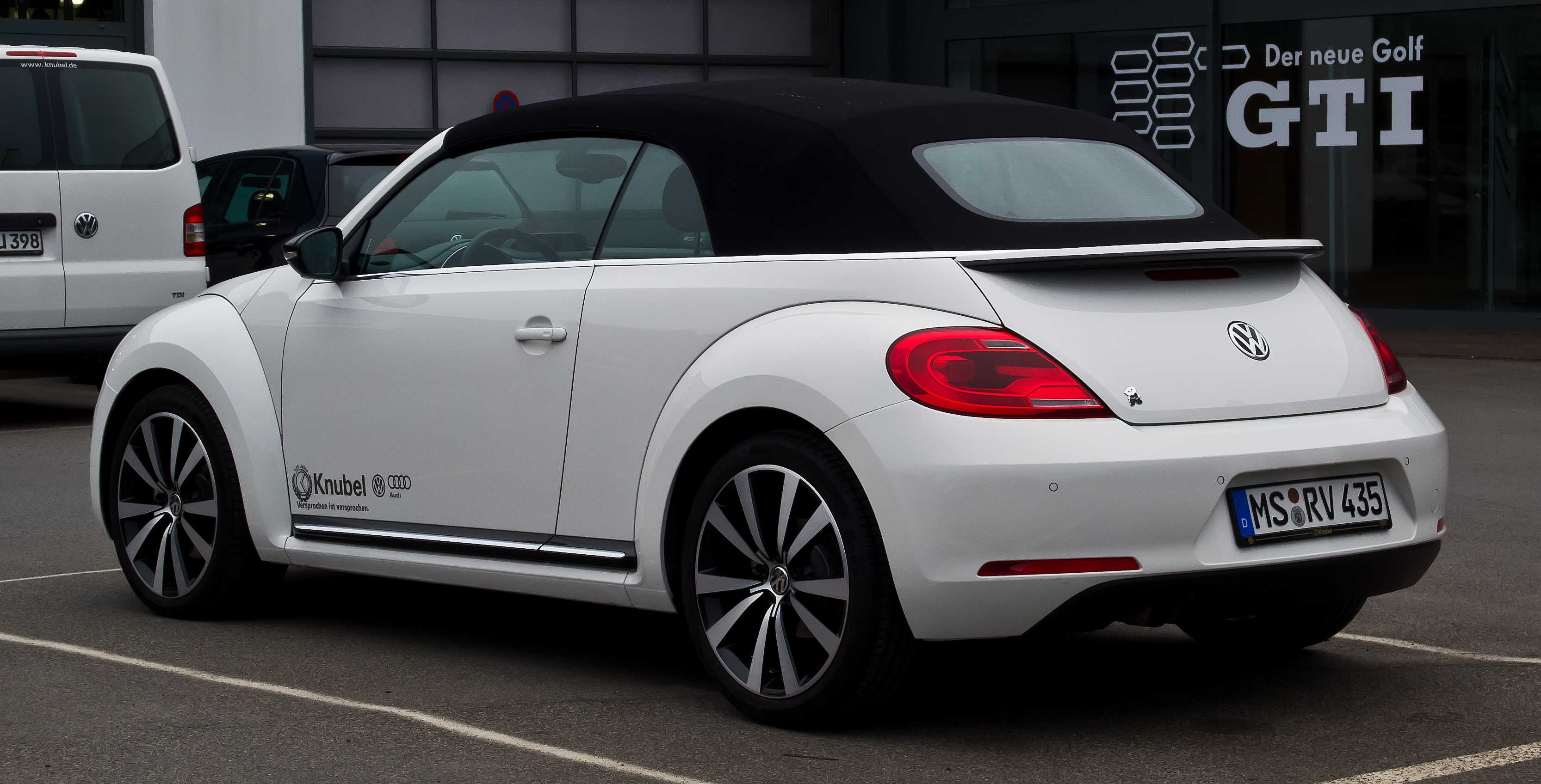 VW Beetle Cabriolet 1.4 TSI Sport (II)